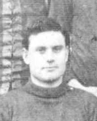 Photo of Jack Purse taken in 1903